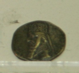 Silver tetradrachm, Parthia, Mithridates II